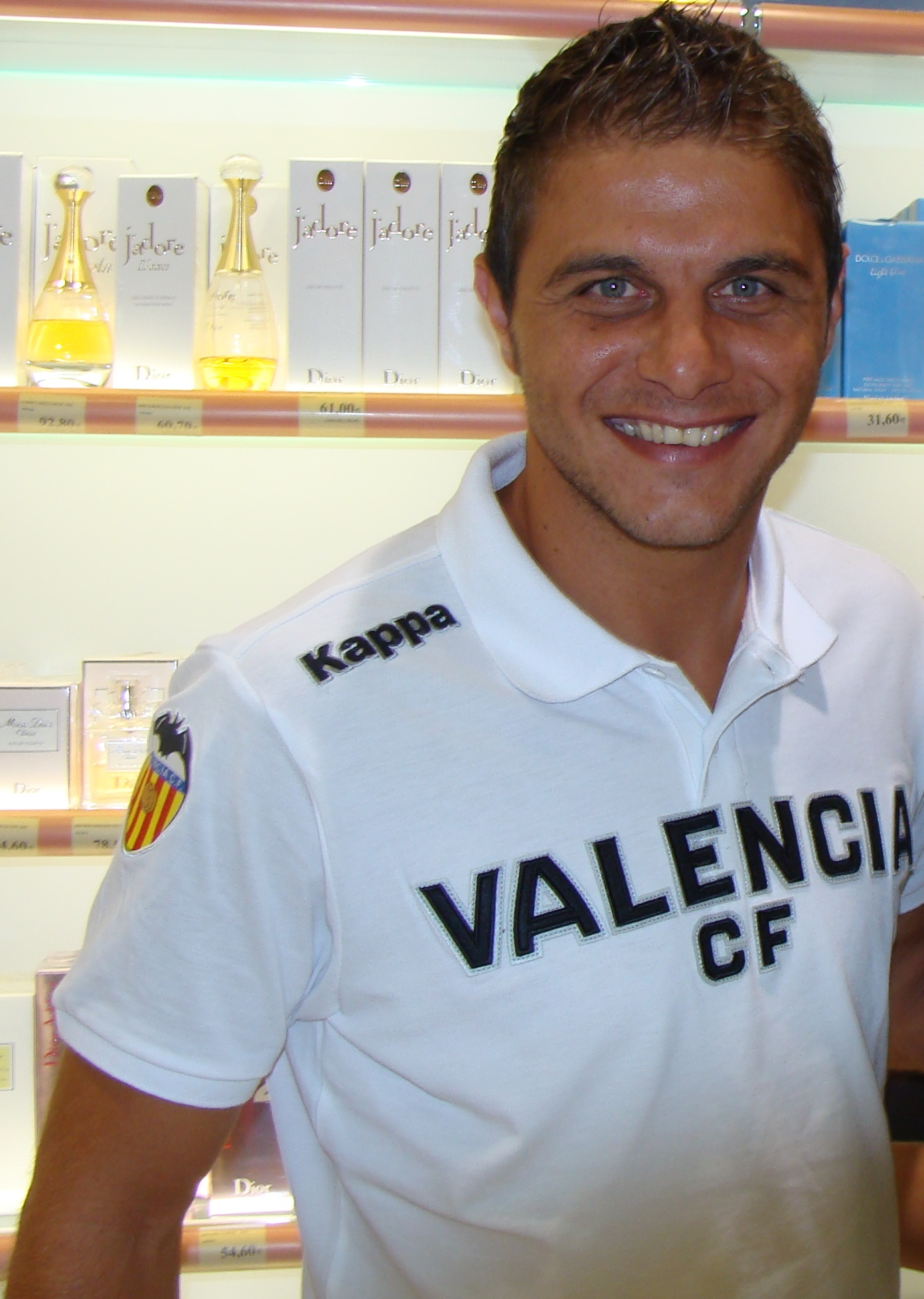 Joaquín Sánchez during the preseason with the Valencia CF